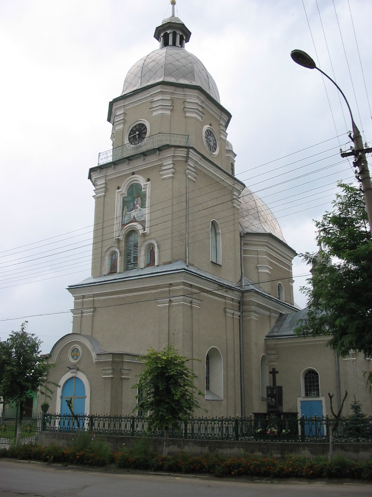 Church of the Nativity of the Virgin Mary in Brody, western Ukraine.